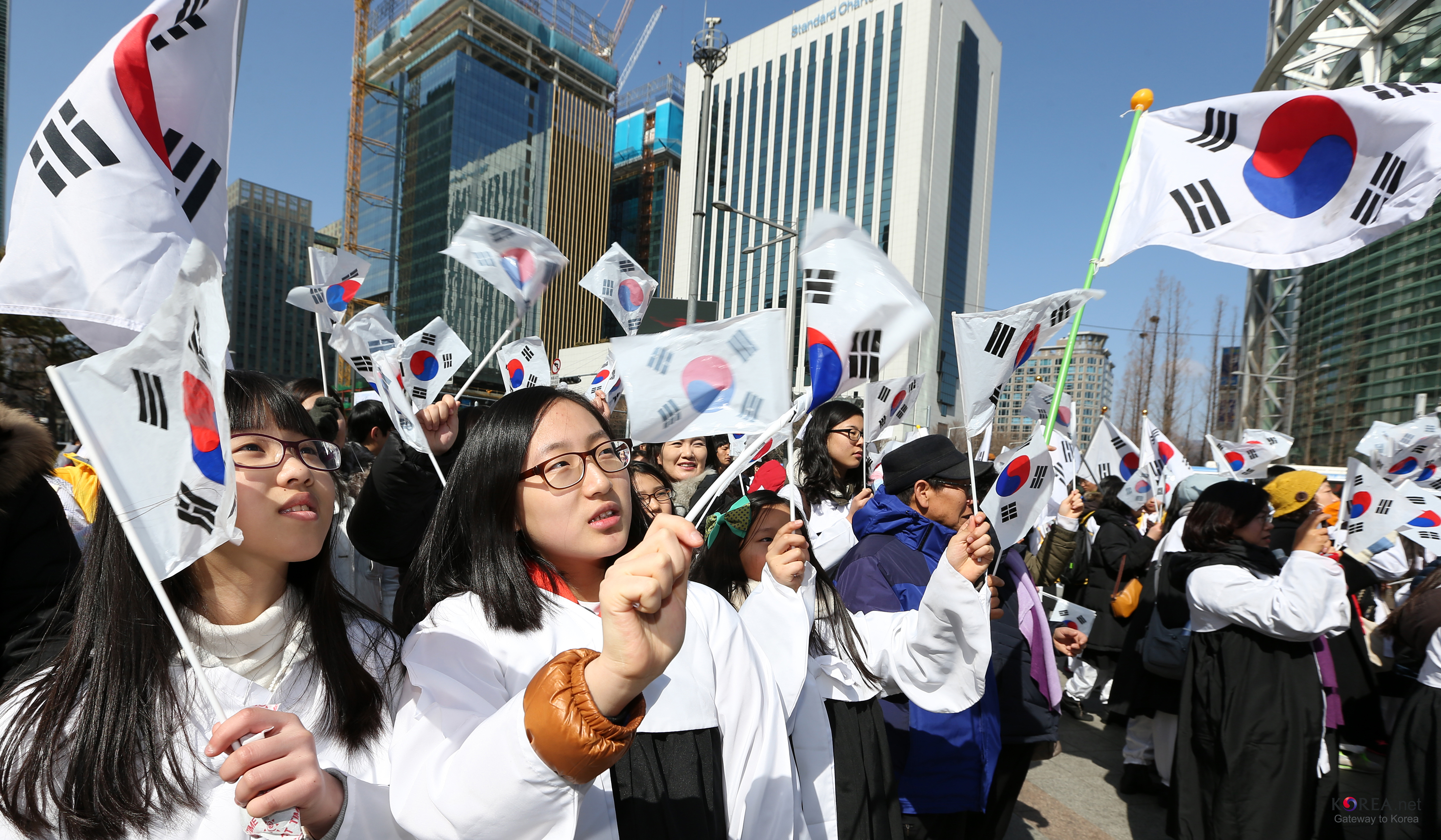 The 94th March First Independence Movement Day Boshingak, Jongnon, Seoul 2013.03.01. Ministry of Culture, Sports and Tourism Korean Culture and Information Service Jeon Han 제94주년 3.1절 기념 보신각 타종행사 보신각, 종로, 서울 문화체육관광부 해외문화홍보원 코리아넷 전한